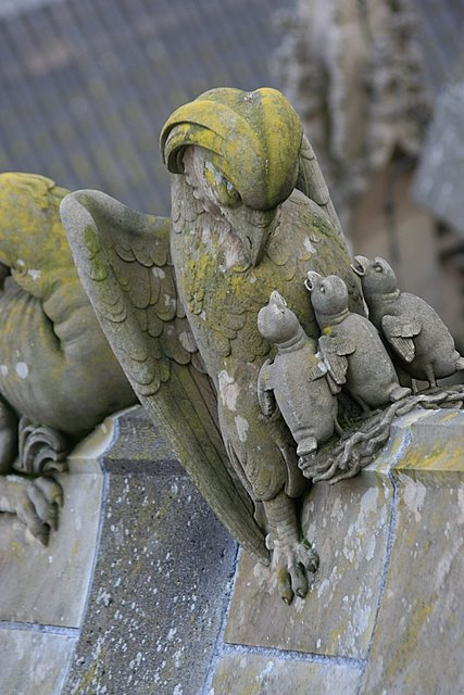 a small statuette of a bird (a "pelican") feeding its young by picking blood from its own breast. From a flying buttress on Saint John's cathedral, s'-Hertogenbosch, the Netherlands. Due to pelicans being unknown at the time, the bird is depicted as a bird of prey.